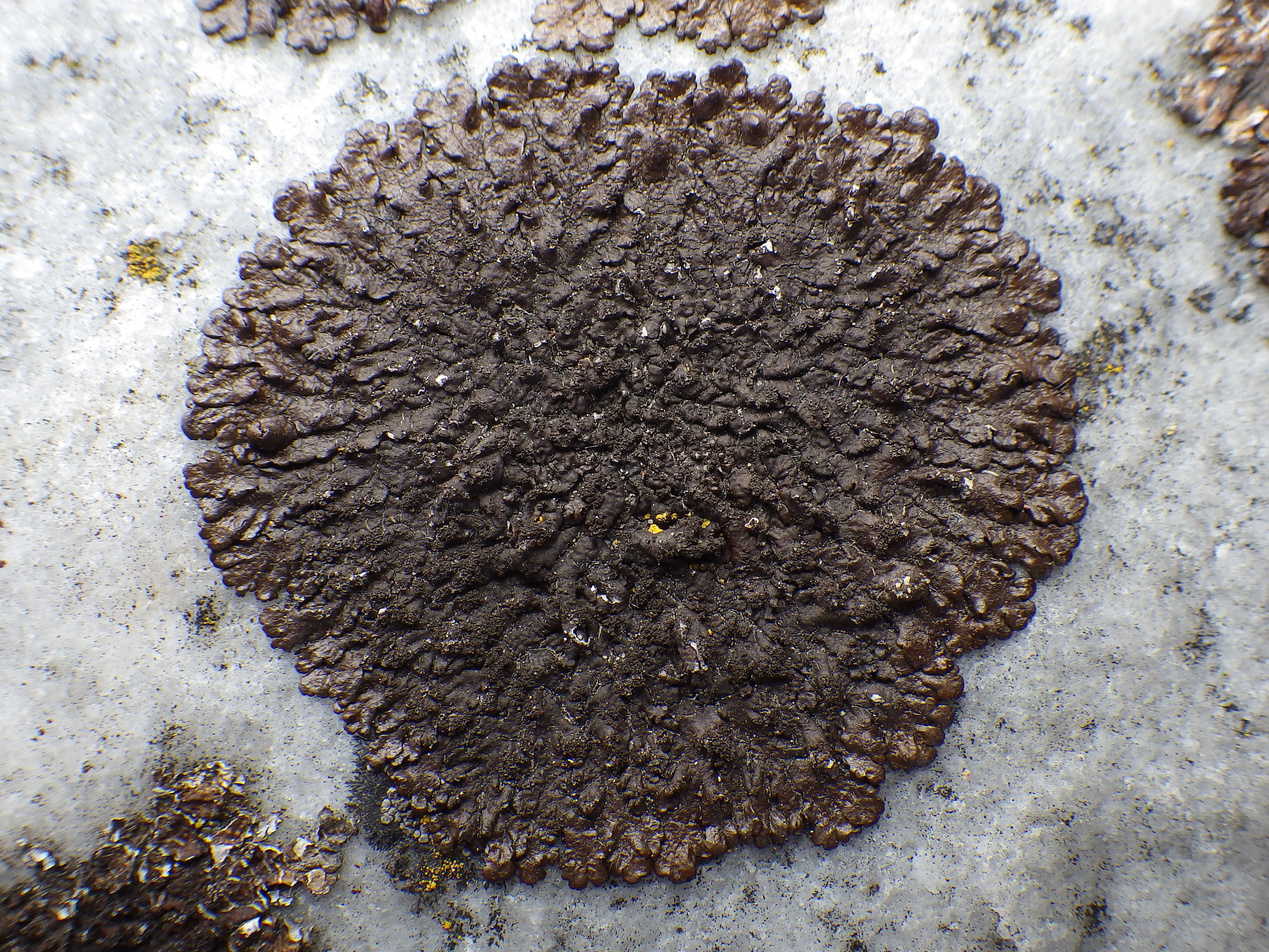 Xanthoparmelia verruculifera (Nyl.) O. Blanco, A. Crespo, Elix, D. Hawksw. & Lumbsch Image location: Serra de São Mamede, Portugal Recognized by sight For more information about this, see the observation page at Mushroom Observer.